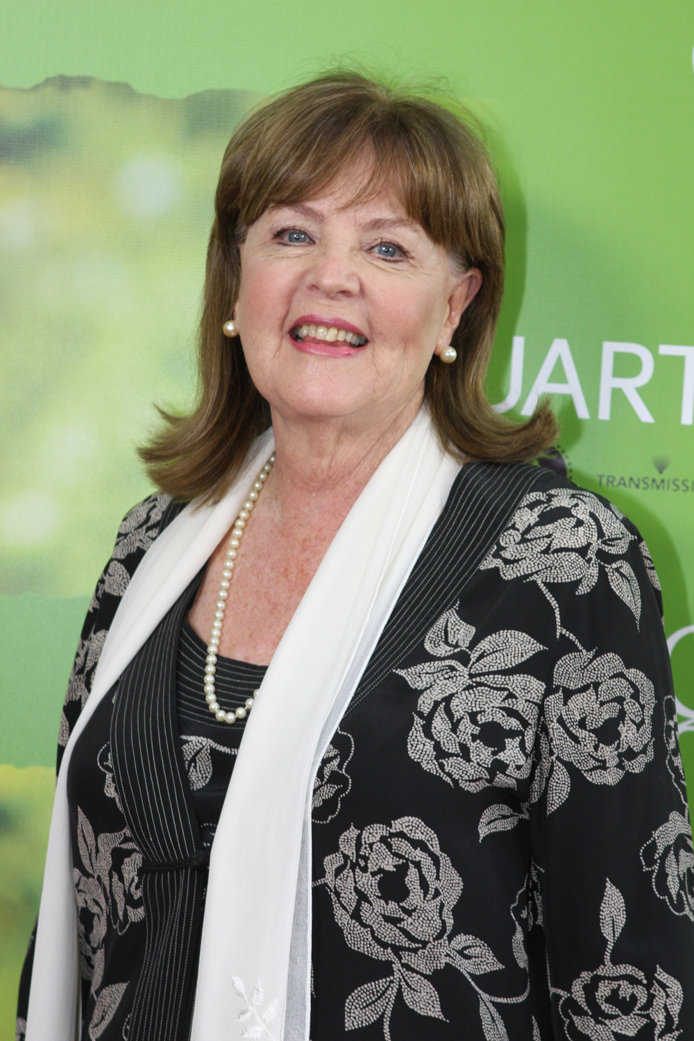 Quartet red carpet movie premiere; Dendy, Opera Quays, Sydney, Australia... 'Quartet' enjoyed its Sydney, Australia movie premiere at Dendy Opera Quays this afternoon, appropriately with the Sydney Opera House in the background. A curious Sydney crowd of both Sydney-siders and visitors gathered to see what all the fuss was about on this very warm arvo. It was all about generating publicity for this new release from movie powerhouse, Paramount Pictures. The movie is not going to be everyone's cup of tea, but if your into sophisticated music, opera and that kind of thing, this movie is for you. You're either going to love or hate this movie which marks the directing debut for Dustin Hoffman. Last month Hoffman received the Hollywood Breakthrough Director Achievement Award at the 16th annual Hollywood Film Awards. The tag-line reads 'Four friends must face the music'. Movie reviewers are going to have a field day with the tag-line... especially if they don't appreciate this flick, and expect mixed reviews as its a niche movie if there ever was. This is not one for the action movie crowd to put it mildly. Promo: At a home for retired opera singers, the annual concert to celebrate Verdi's birthday is disrupted by the arrival of Jean, an eternal diva and the former wife of one of the residents. Storyline: Cecily, Reggie, and Wilfred are in a home for retired opera singers. Every year, on October 10, there is a concert to celebrate Verdi's birthday and they take part. Jean, who used to be married to Reggie, arrives at the home and disrupts their equilibrium. She still acts like a diva, but she refuses to sing. Still, the show must go on... and it does. Director: Dustin Hoffman Writers: Ronald Harwood (play), Ronald Harwood (screenplay) Stars: Maggie Smith, Michael Gambon and Billy Connolly Websites Paramount Pictures Australia Dendy Cinemas Eva Rinaldi Photography Eva Rinaldi Photography Flickr